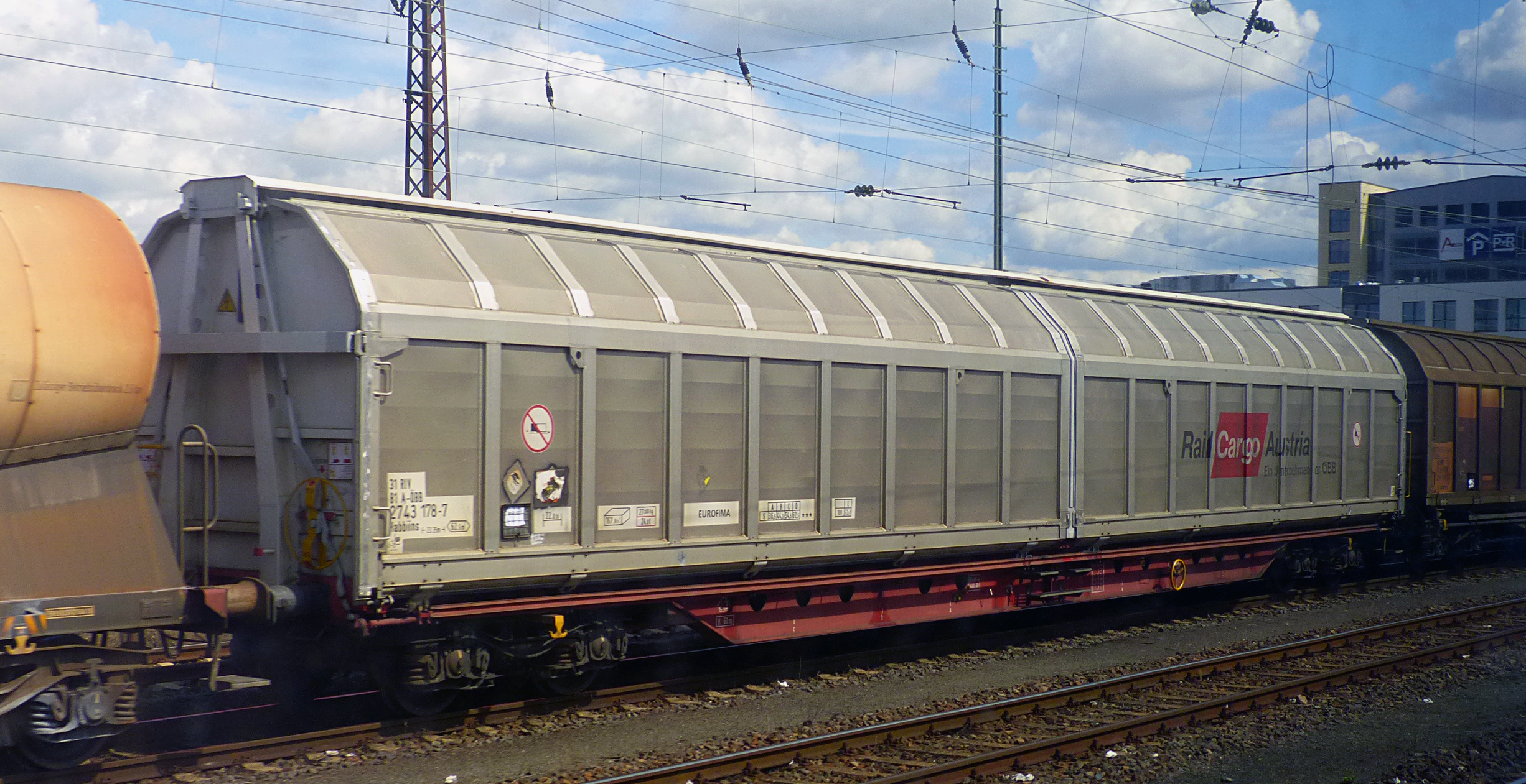 Freight Car 31 81 2743 178-7 A-ÖBB, Typ Habbins of Rail Cargo Austria at Aschaffenburg Mainstation, Germany